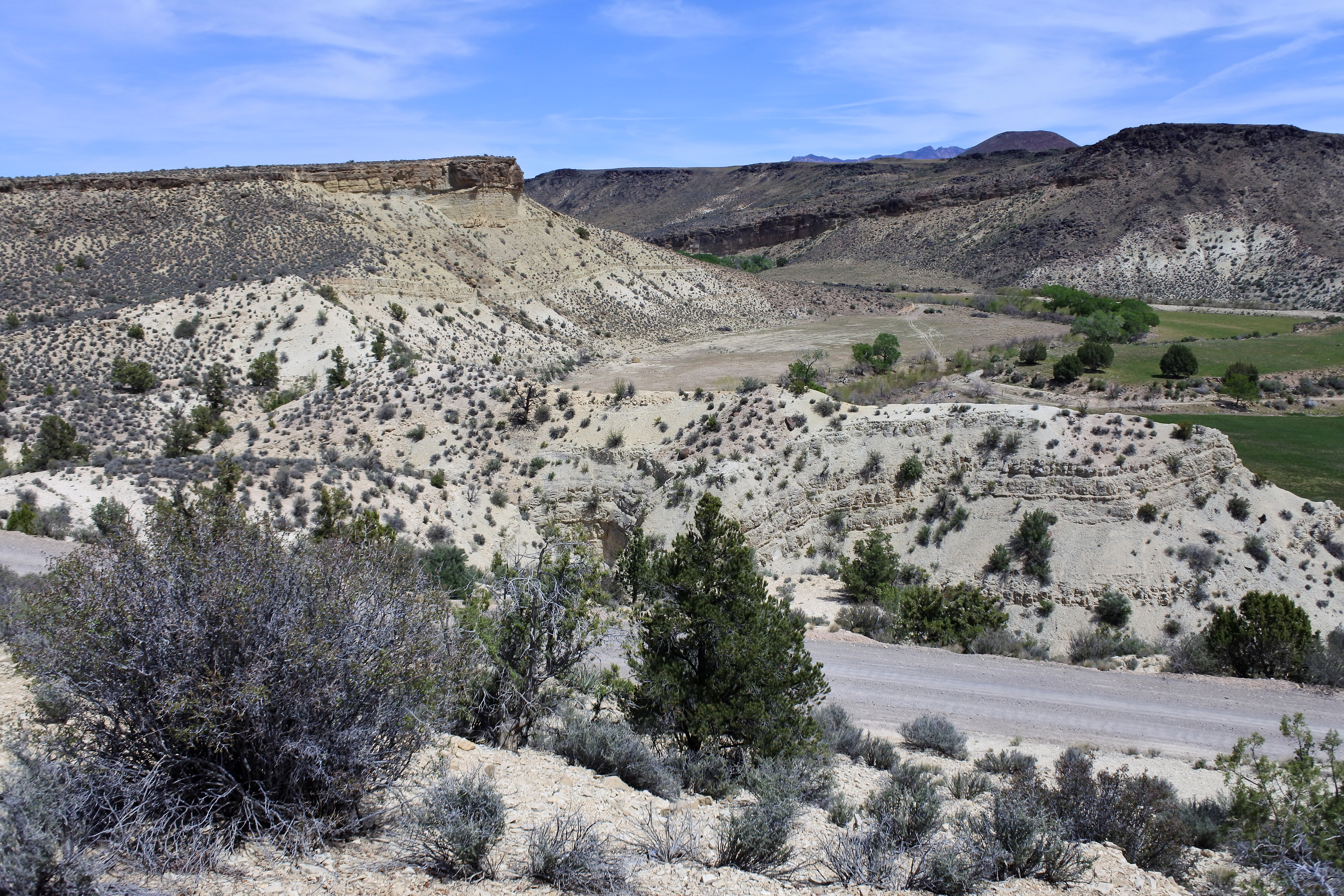 Carmel Formation (Middle Jurassic) near Gunlock, southwestern Utah. The dark unit at the top is the equivalent of the Cretaceous Dakota conglomerate.